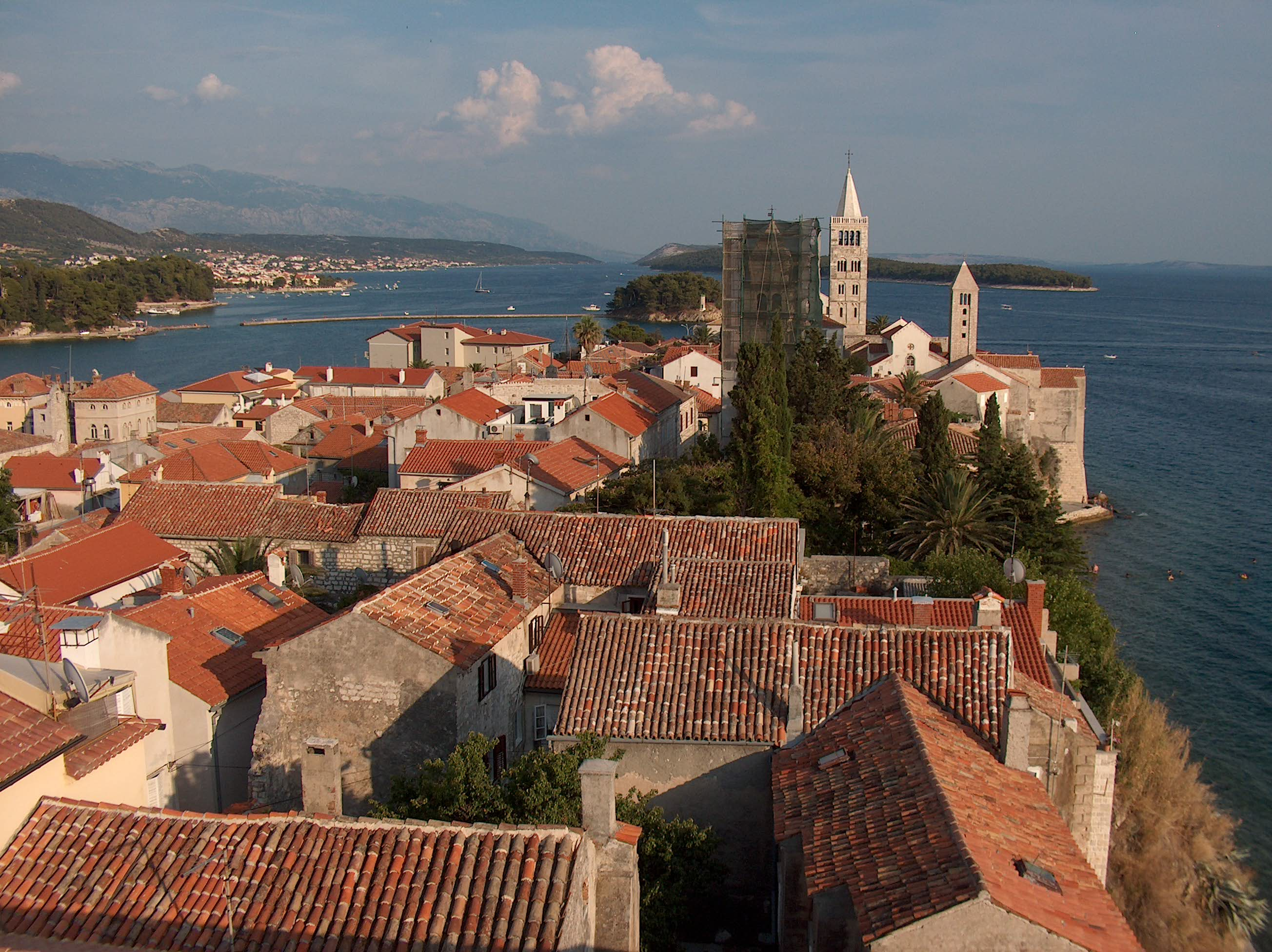 Town Rab, photographed from bellfry of St. Ivan Church